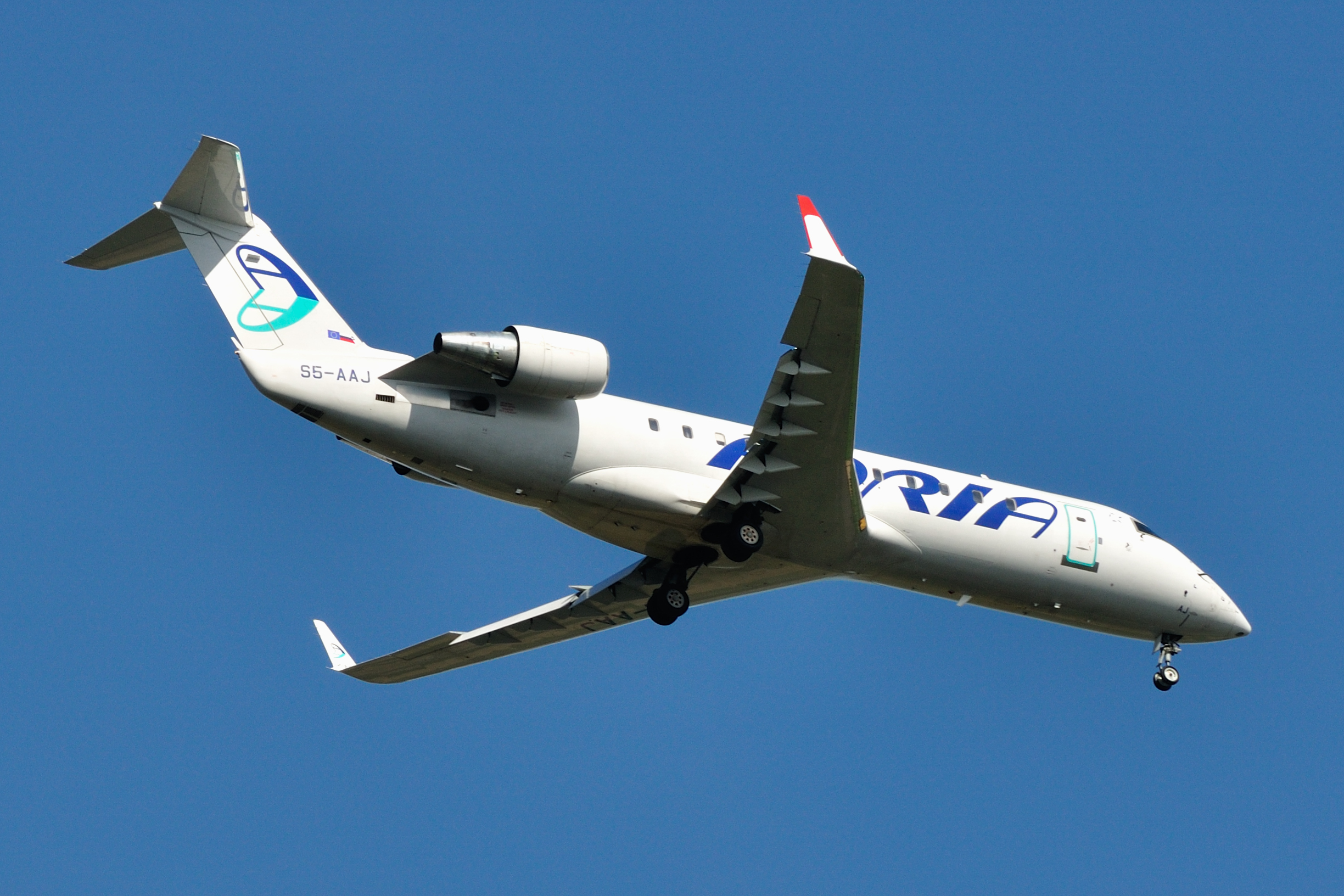 Switzerland, Canton of Zürich, Adria Airways' Bombardier CL-200 S5-AAJ approaching runway 14 at Zurich International Airport